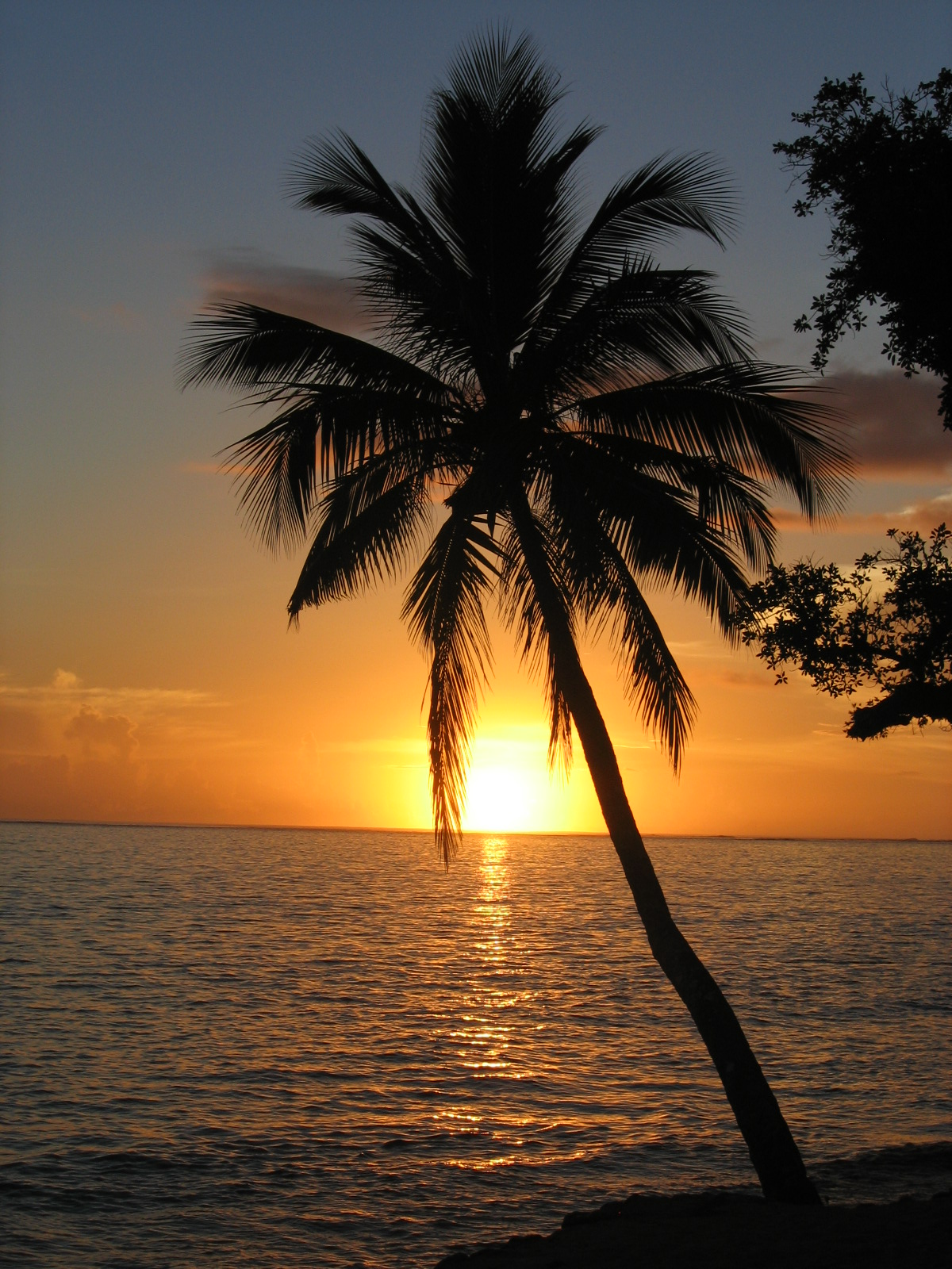 Sunset over Pacific ocean with coconut palm tree